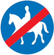 Luxembourg road sign diagram